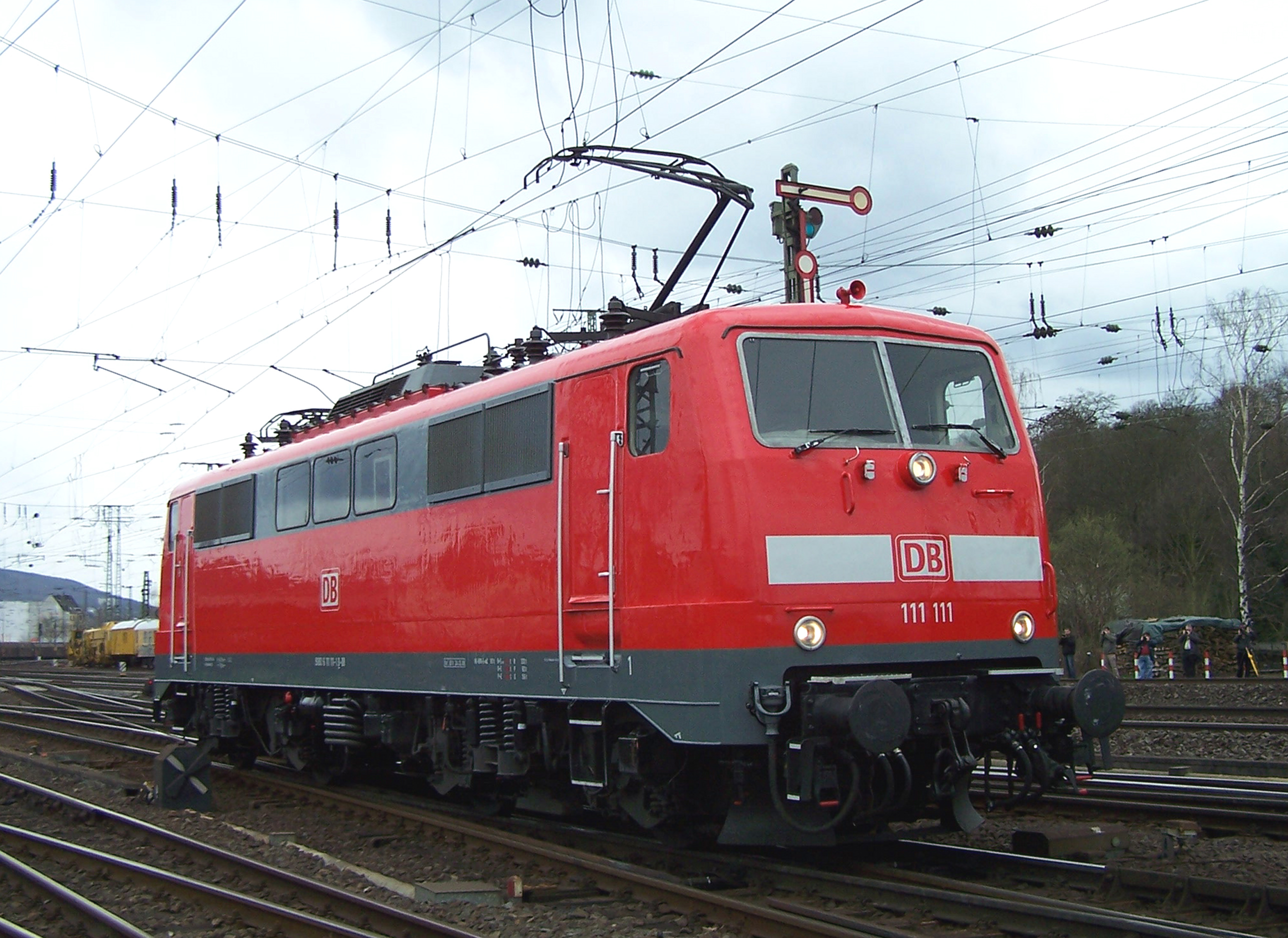 Electric locomotive 111 111 during a locomotive parade at the DB Museum in Koblenz-Lützel, a local branch of the Transport Museum in Nuremberg, April 2010